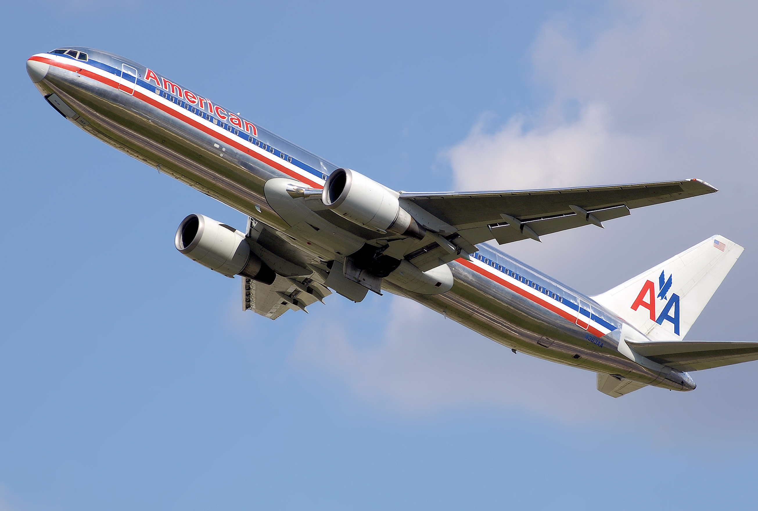 American Airlines Boeing 767-300ER (N363AA) taking off from London Heathrow Airport, England. The undercarriage doors are still closing.